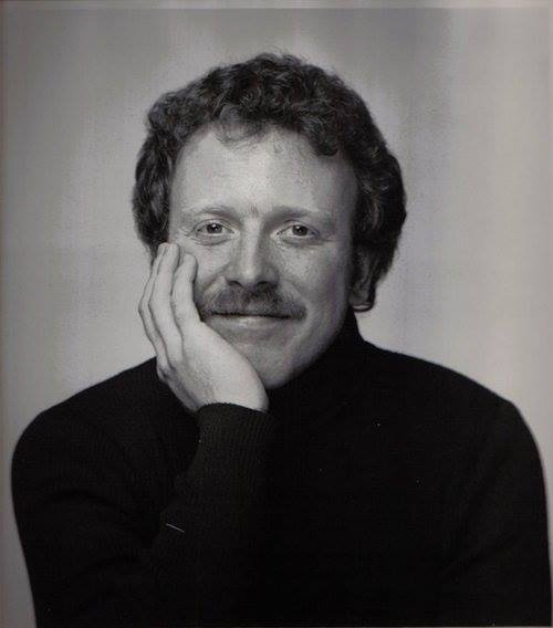 Photo taken in 1987